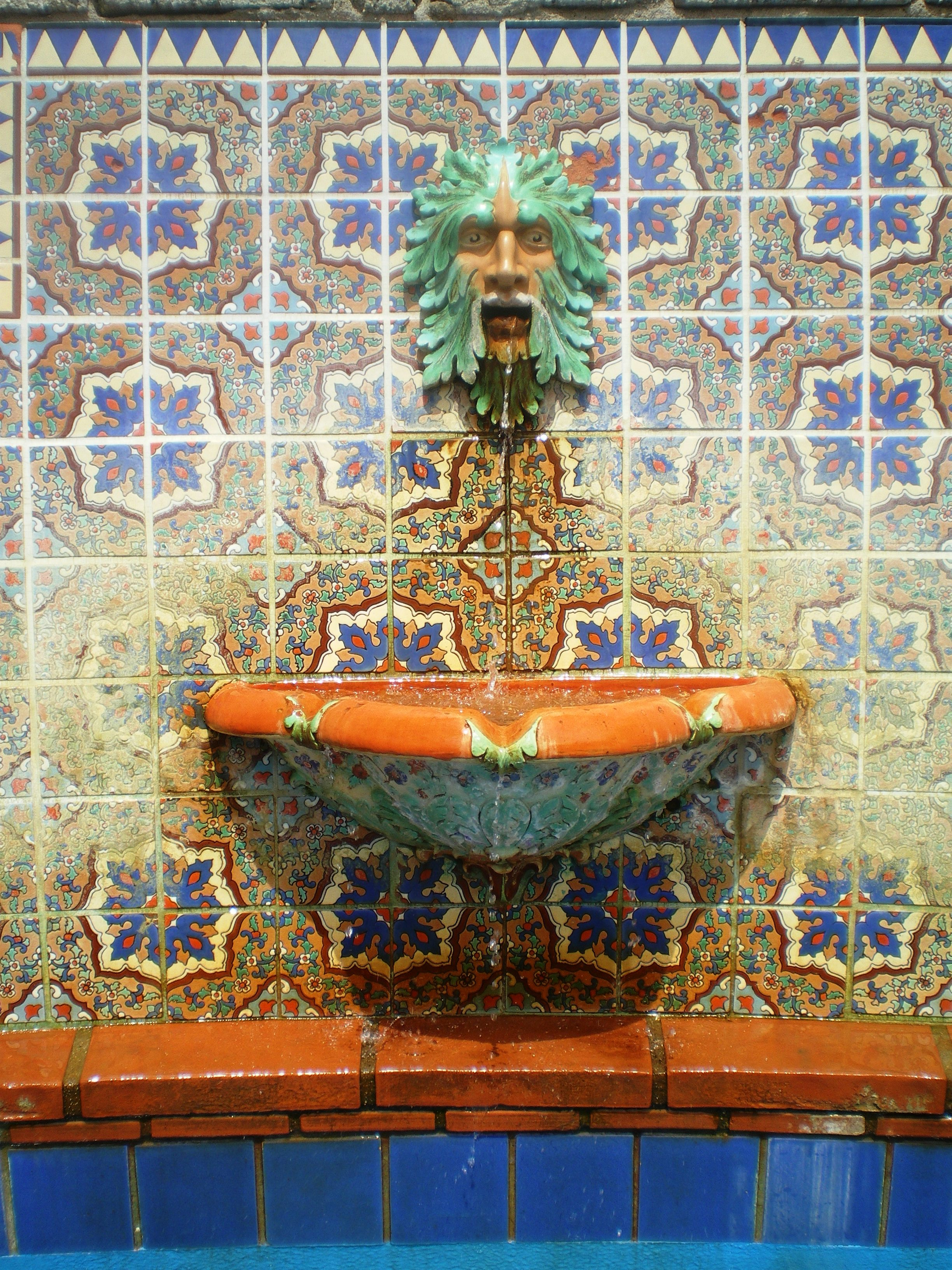 Neptune Fountain at Adamson House, Pacific Coast Highway, Malibu, California